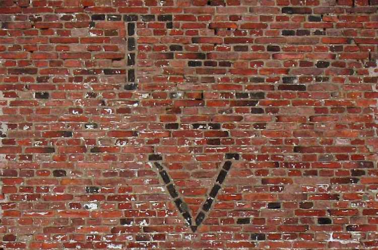 Two of the four Van Hoesen Family monograms, inlaid in brick, in one of the end gables of Van Hoesen House, Claverack, New York. These are the monograms of the first occupants of the house, Jan van Hoesen (1687-1745) and his wife Tanneke. The "T" stands for Tanneke, given name of the wife of Jan Van Hoesen, Tanneke Wittbeck. It is likely the bricklayers used clinker bricksto form the letters shown here. The photograph was taken in November 2007.